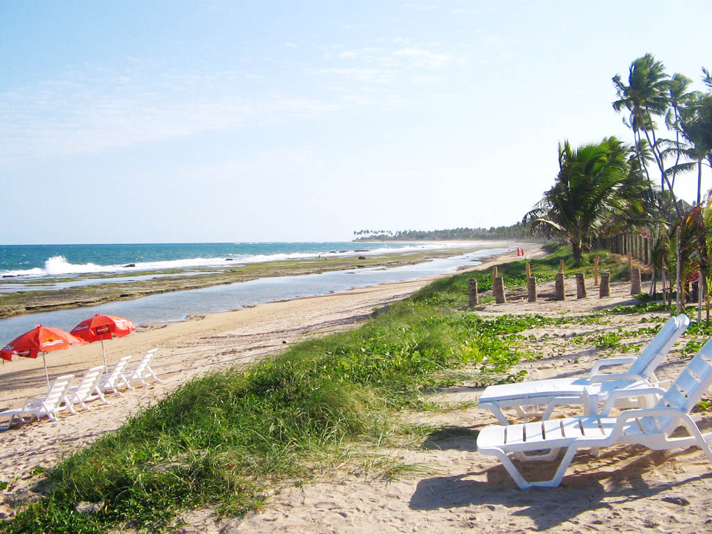 Muro Alto beach, looking South.